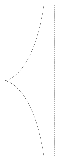 A plot of the cissoid of diocles, with asymptote